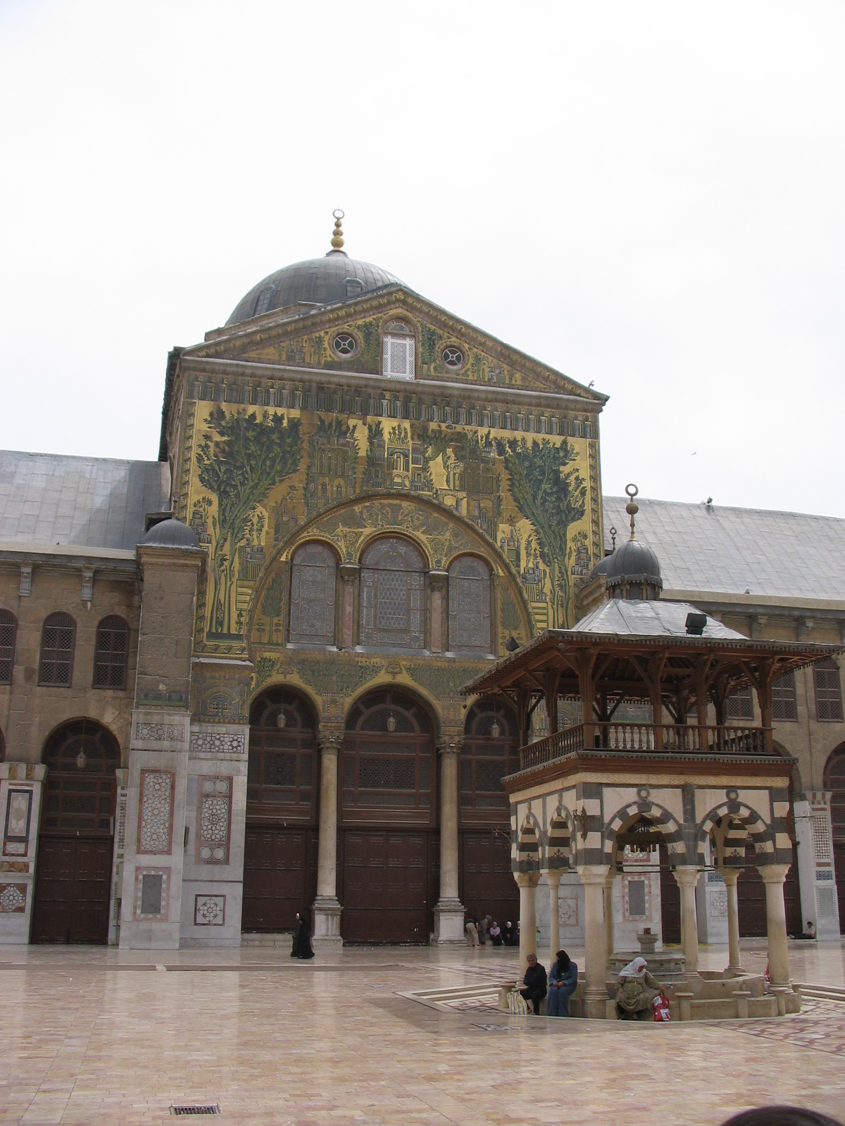 Umayyad Mosque, Byzantine mosaic, Damascus in 2006